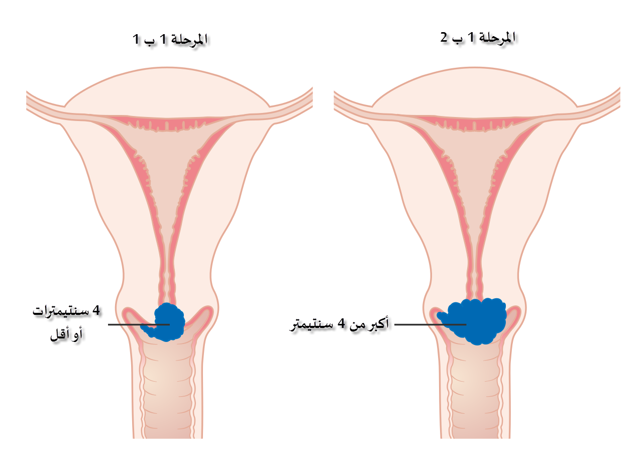 Diagram showing stage 1B cervical cancer.